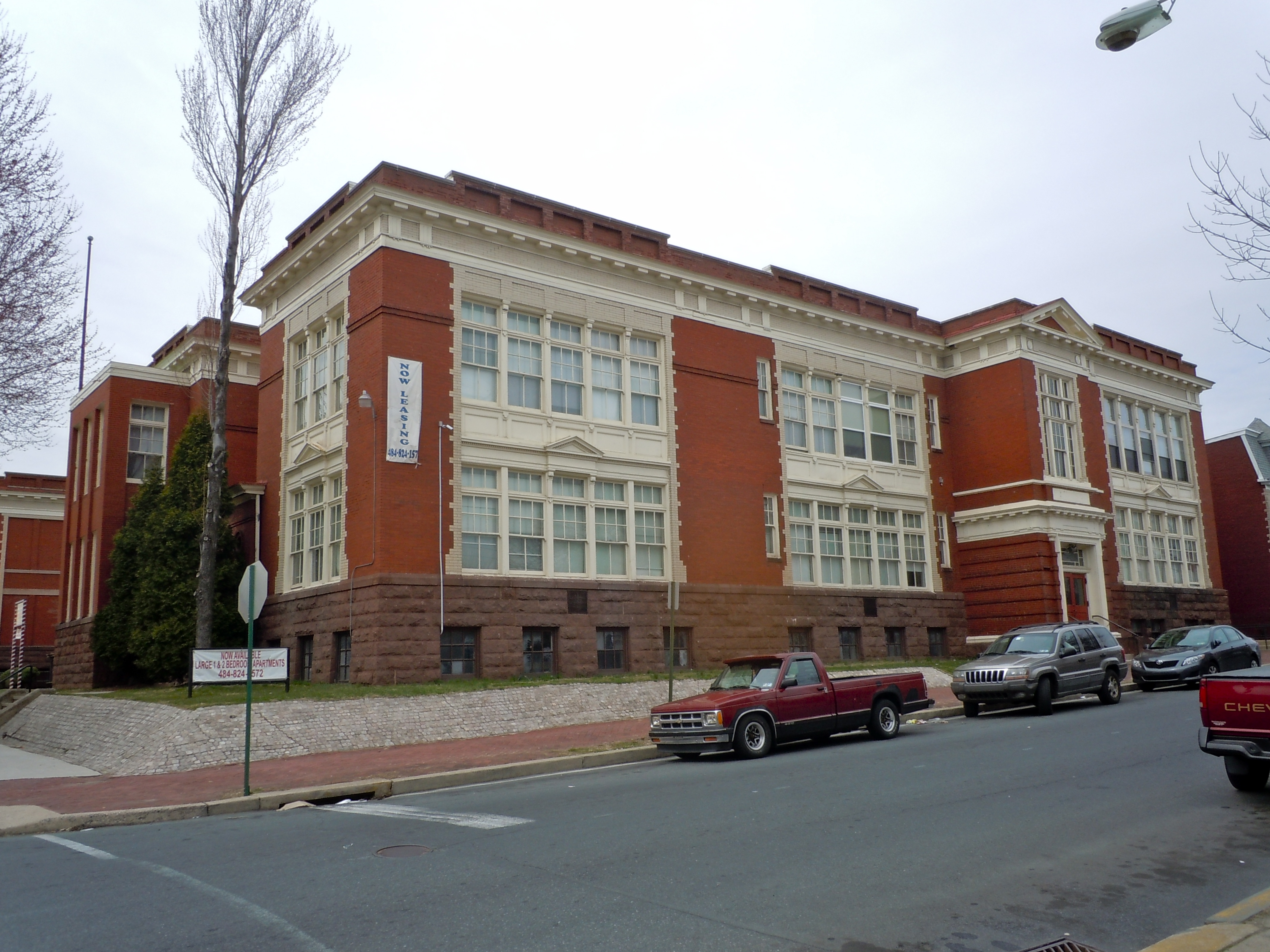 Charles S. Foos Elementary School on the NRHP since November 10, 1983. At Douglass and Weiser Streets, Reading, Berks County, Pennsylvania. Part of the very large school building is now a nursery school, and part condos.